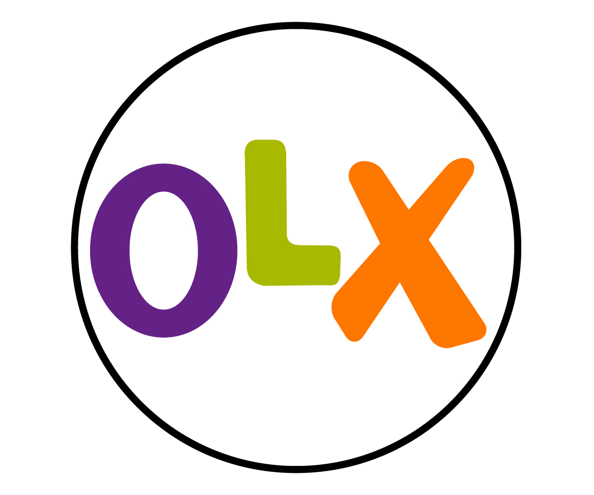 Official logo of OLX.